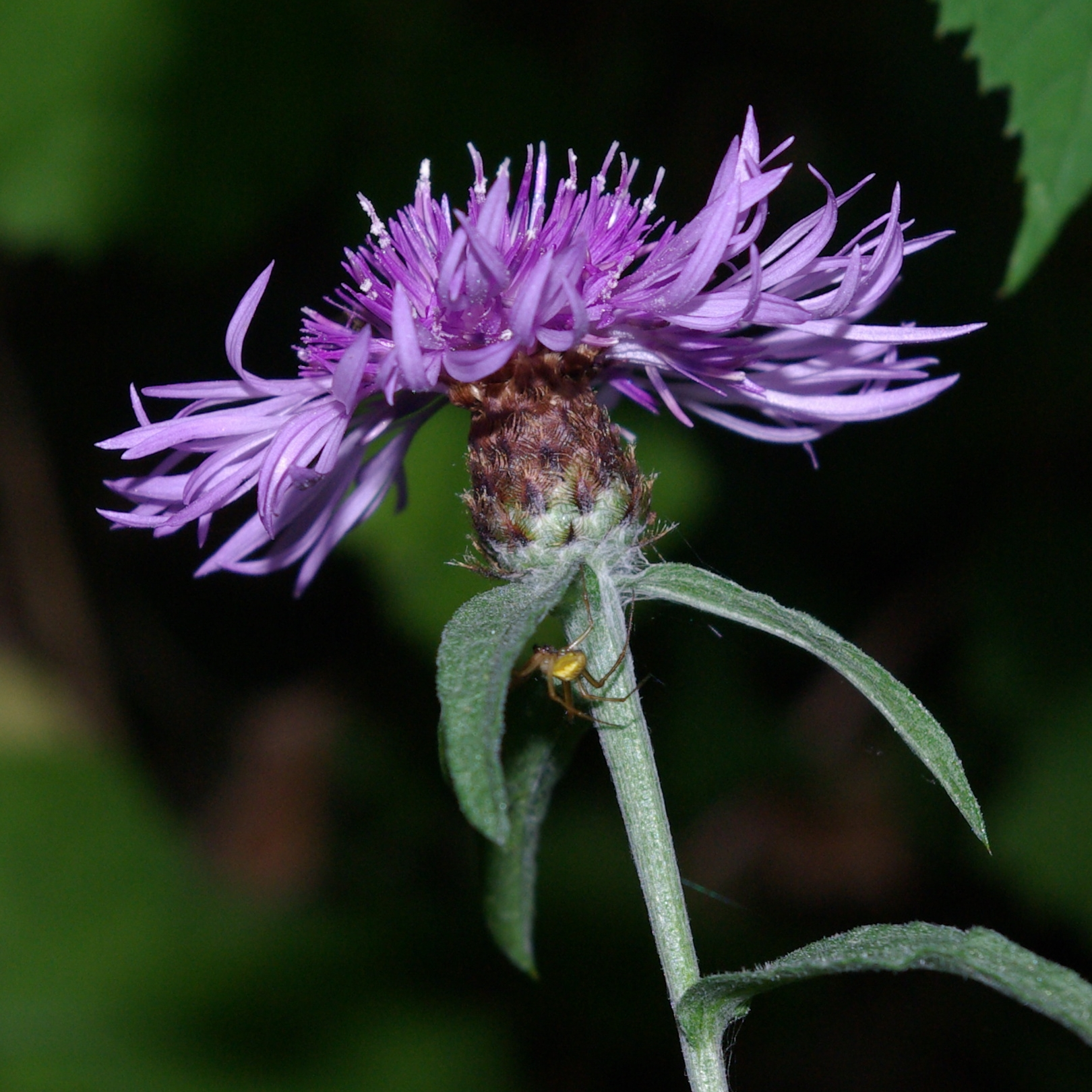 Centaurea × moncktonii, Parksville, British Columbia. Identification courtesy of the E-Flora BC project